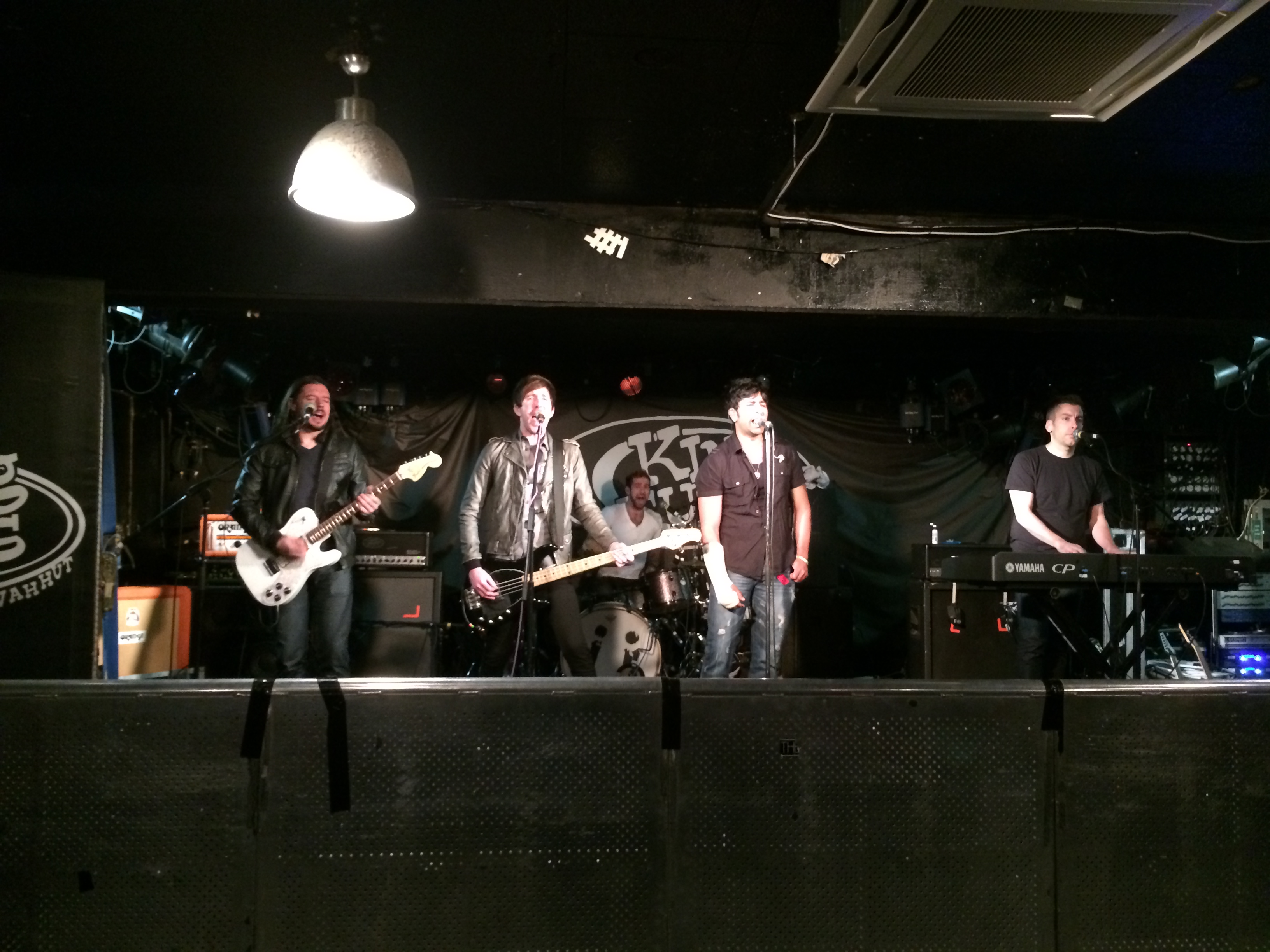 Super Happy Fun Club during soundcheck before their performance at King Tut's Wah Wah Hut in Glasgow, Scotland on Oct. 10, 2013. The show was SHFC's first performance on the second leg of the Madina Lake Farewell and Final UK Tour